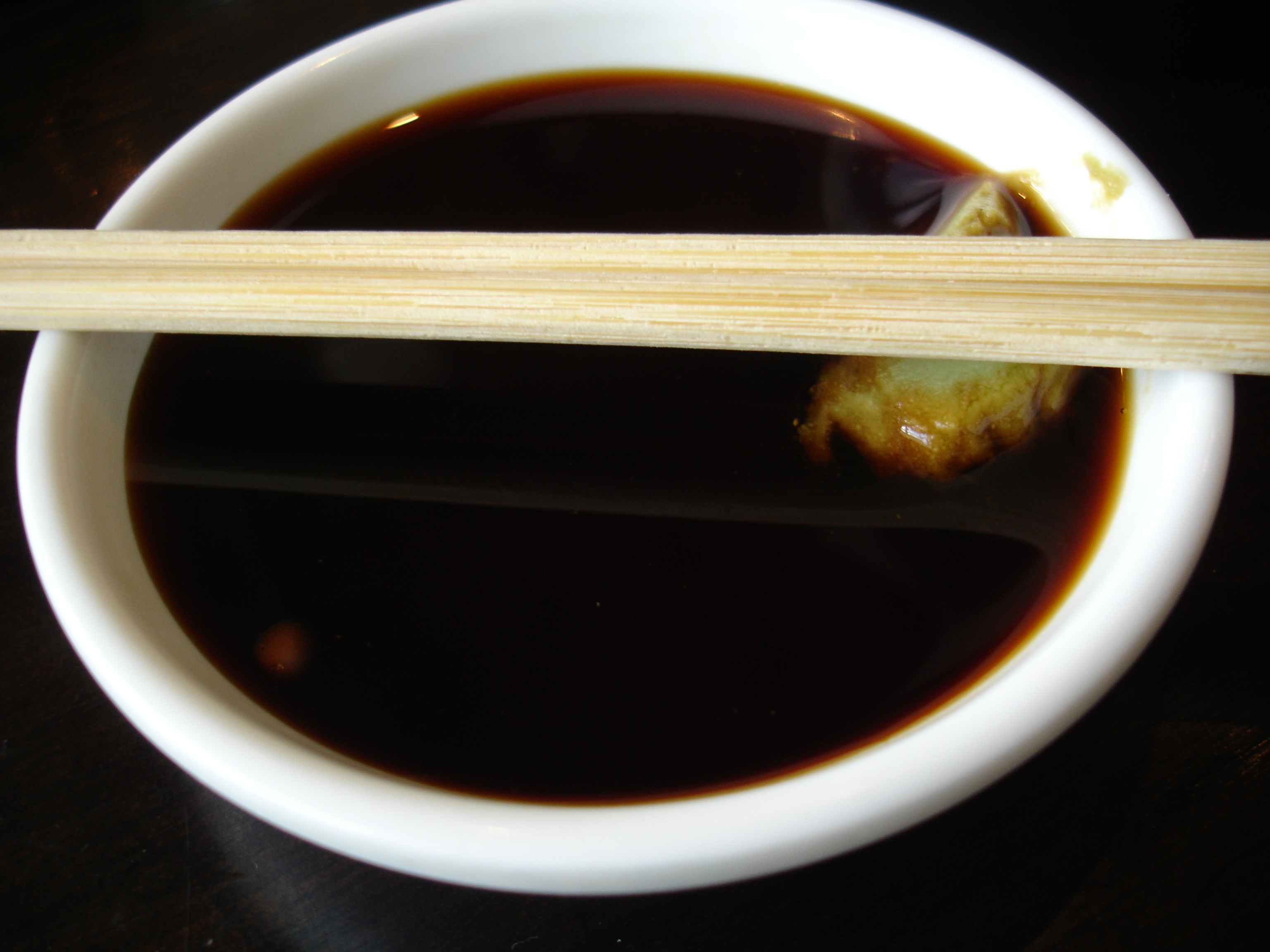 A small bowl of soy sauce with a blob of green wasabi paste on the side and chop sticks laid across the top.